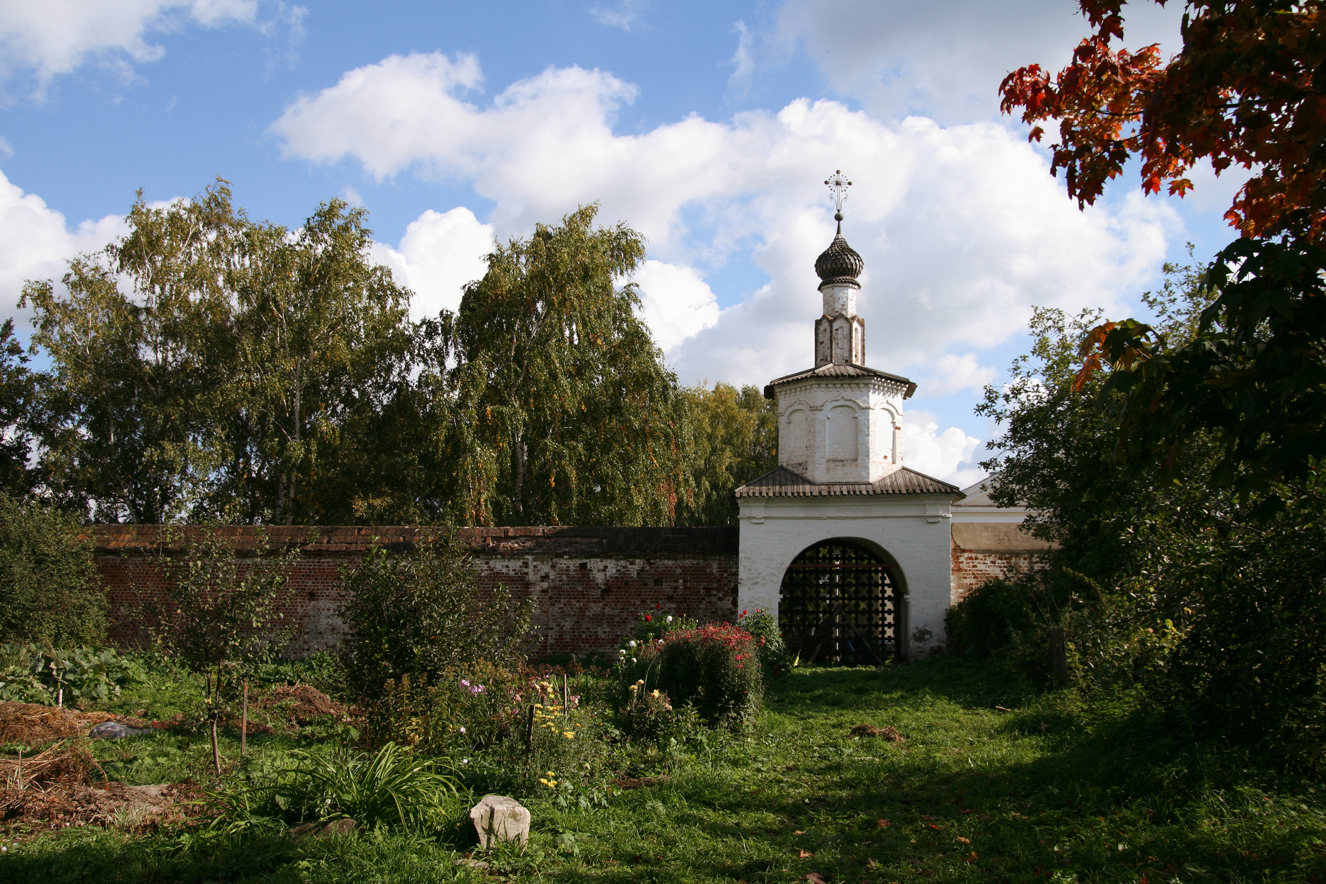 The Wall Tower of Rizopolozhensky Monastery, the Former Holy Gates of Trinity Convent, Suzdal, XVII c